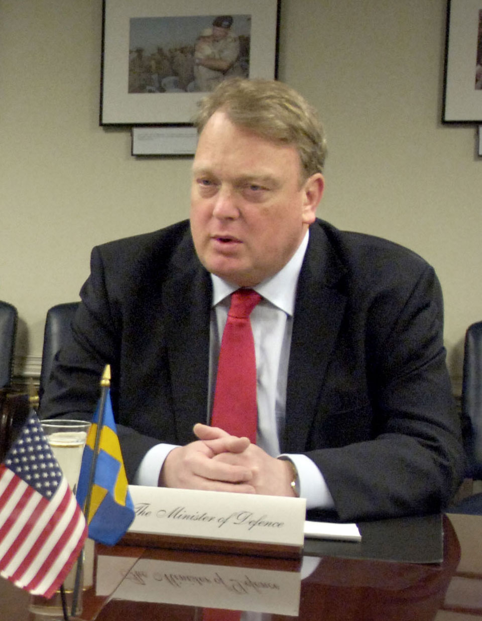 Swedish Minister of Defense (right) meets with Secretary of Defense Robert M. Gates (left) in the Pentagon on April 13, 2007. Among those accompanying Odenberg are Swedish Ambassador to the U.S. Gunnar Lund (2nd from right) and Swedish Defense and Air Attaché Maj. Gen. Bo Waldemarsson (2nd from left).